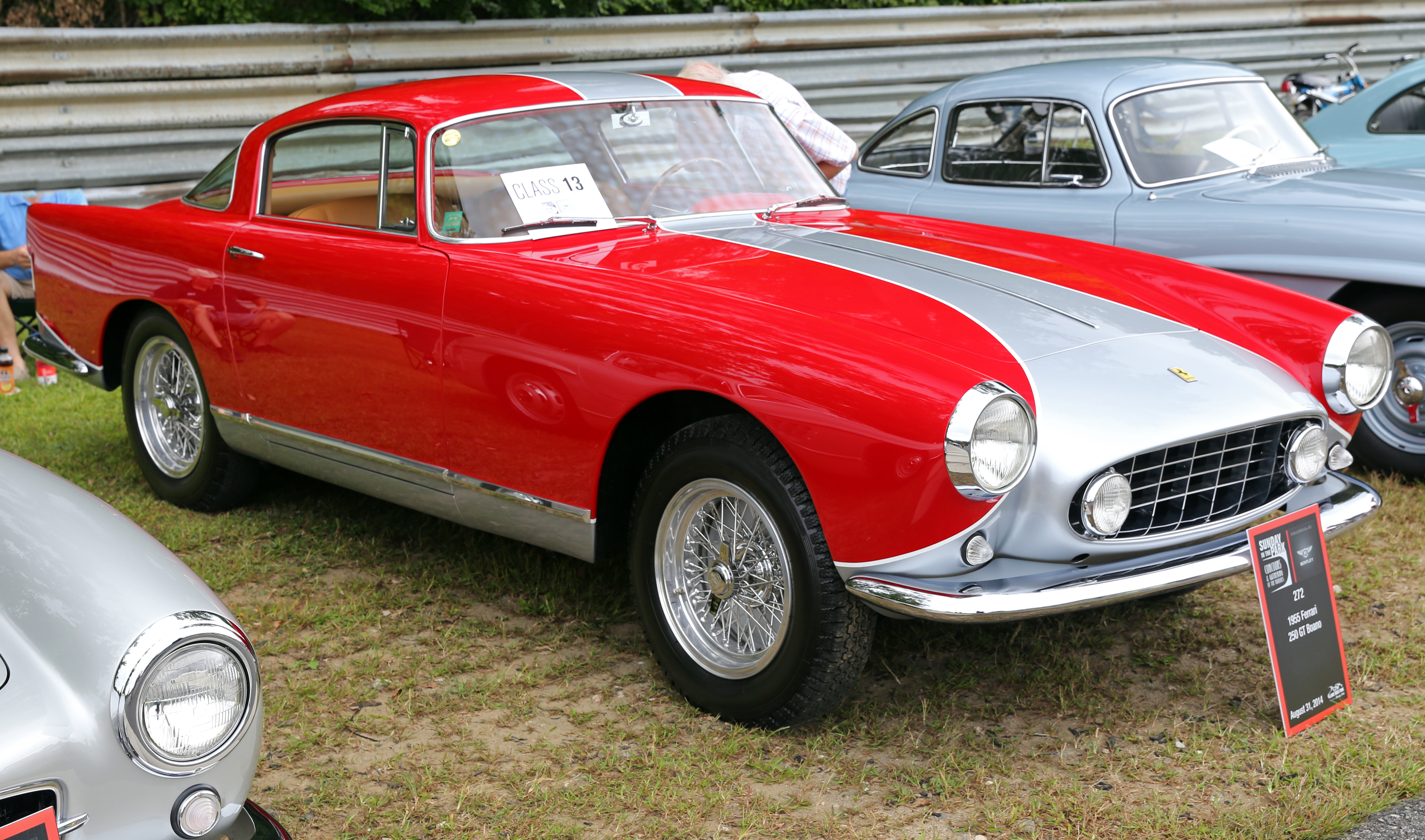 A 1955 Ferrari 250GT low-roof all alloy Berlinetta at the 2014 Lime Rock Concours d'Élegance. Chassis number 0447 GT, this is one of the first nine of this Pininfarina design - six of which were built and lightly revised by Boano. It is one of fourteen total with alloy bodywork. It was delivered new to the director of Milan's La Scala opera, Maestro Guido Cantelli, who died only a few months later. The car went on to Luigi Chinetti in the US and has been part of various Ferrari collections since. While the chassis was built in 1955 (one of the first 100 Ferrari 250 GTs built), the bodywork was only completed on 30 July 1956.